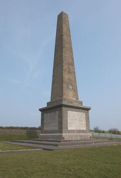 This is Greenisland Knockagh Monument (War Memorial) Picture from